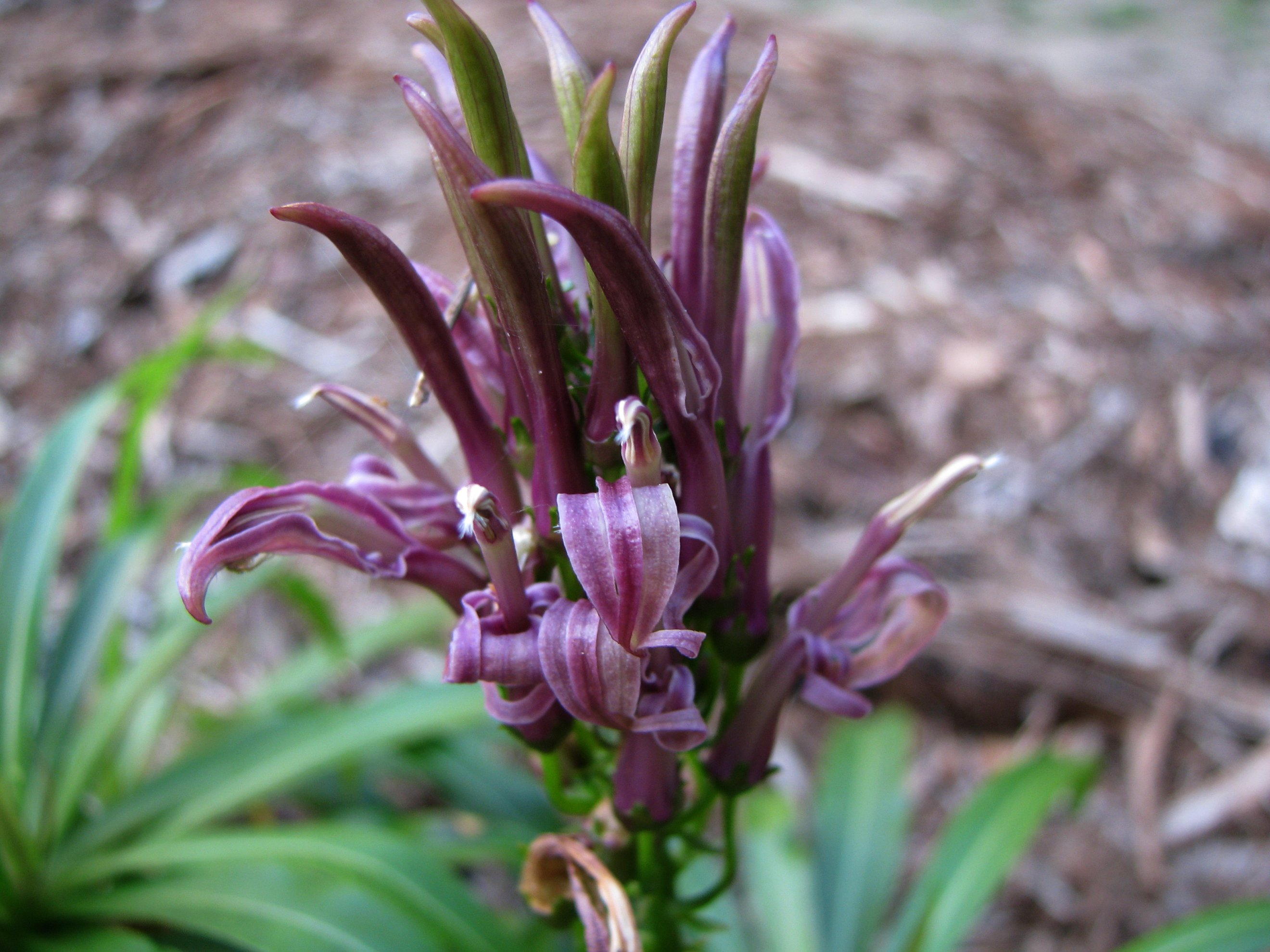 Cultivated specimen of the endangered Hawaiian endemic ʻŌpelu (Lobelia niihauensis) on the island of Oʻahu.